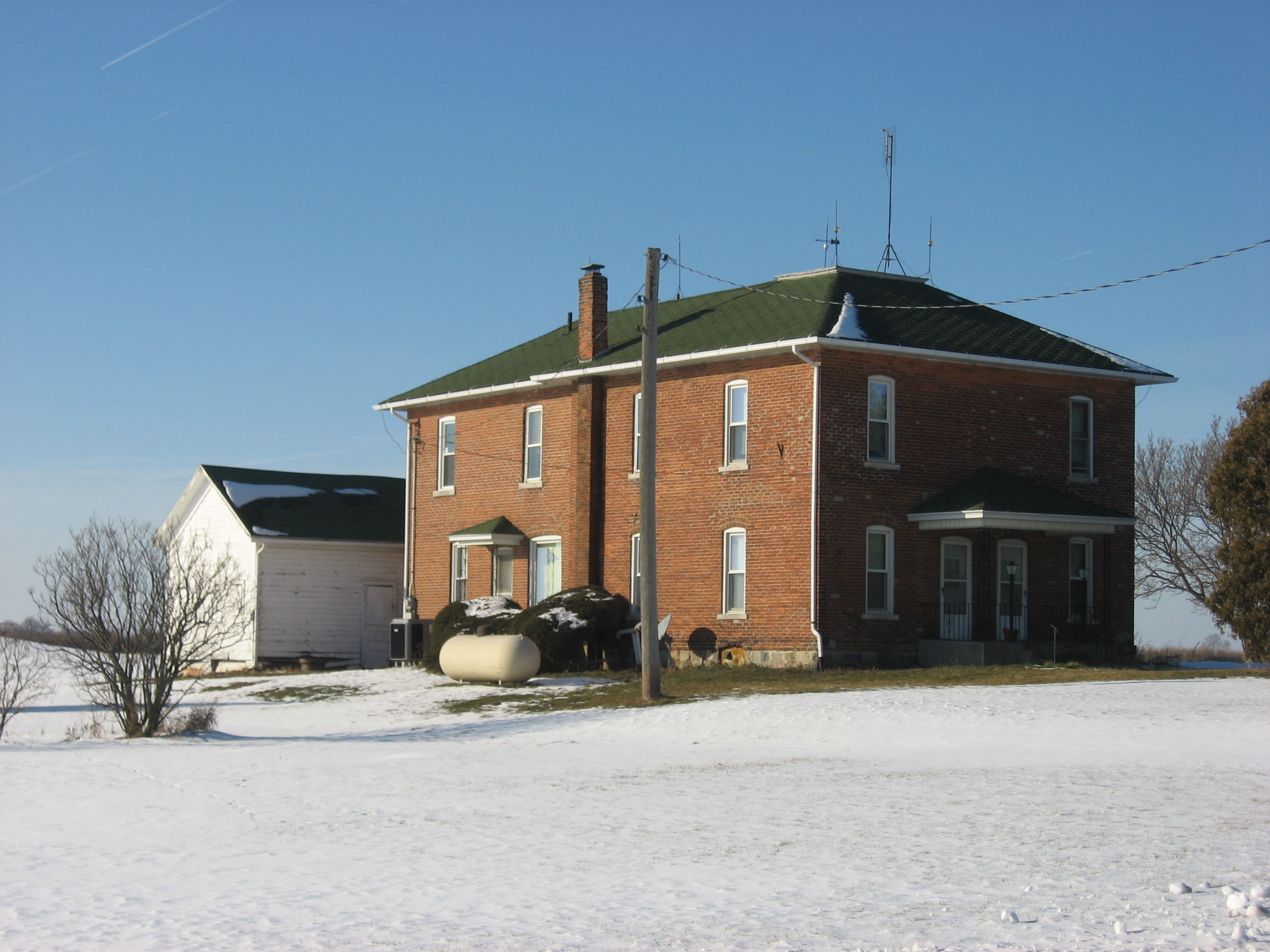 Front and southern side of the Breechbill-Davidson House, located at 4466 County Road 7 northwest of Garrett in Keyser Township, DeKalb County, Indiana, United States. Built in 1889, it is listed on the National Register of Historic Places.